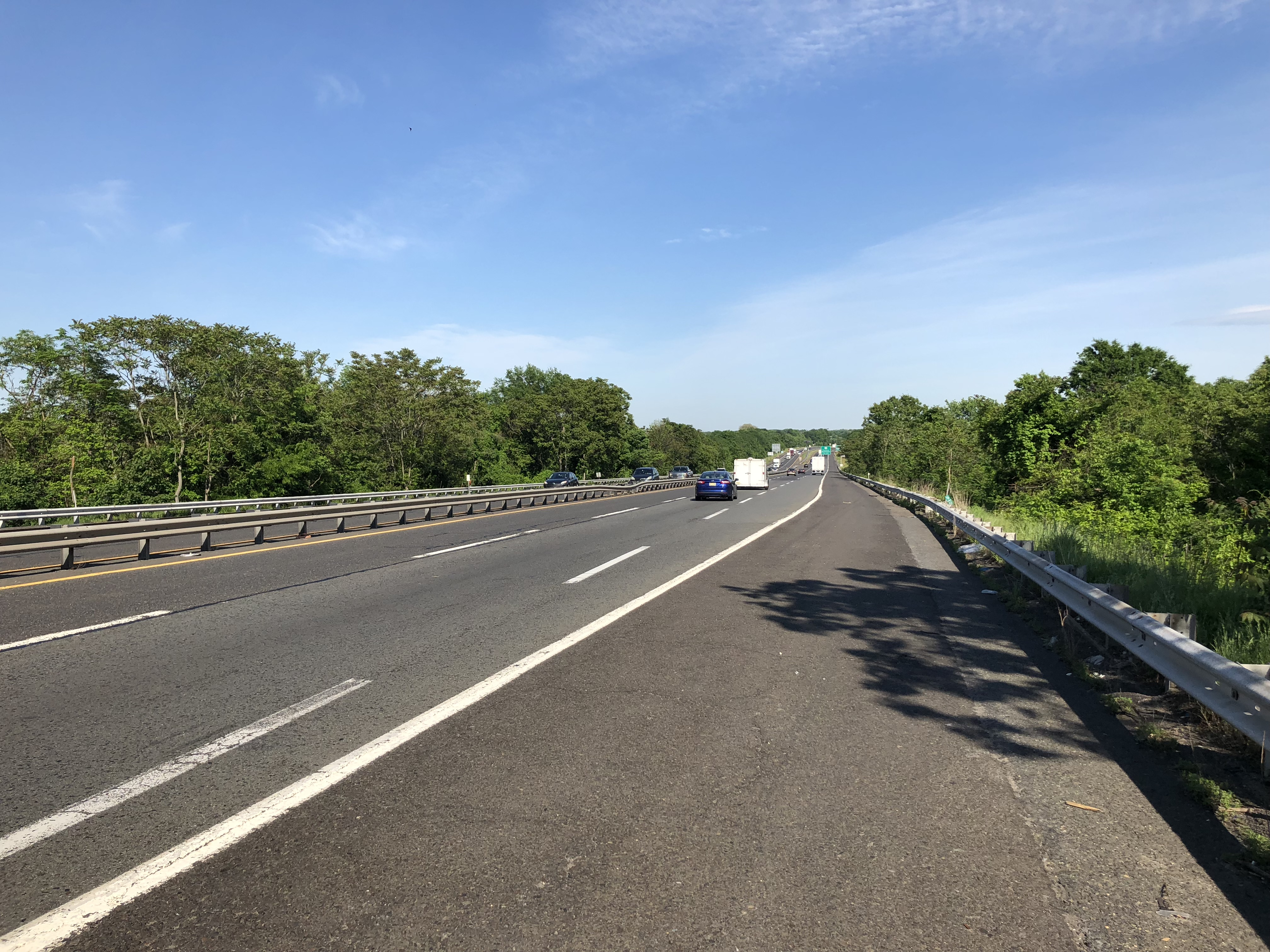 View north along Interstate 95 (New Jersey Turnpike Pennsylvania Extension) just north of the Delaware River-Turnpike Toll Bridge in Burlington Township, Burlington County, New Jersey